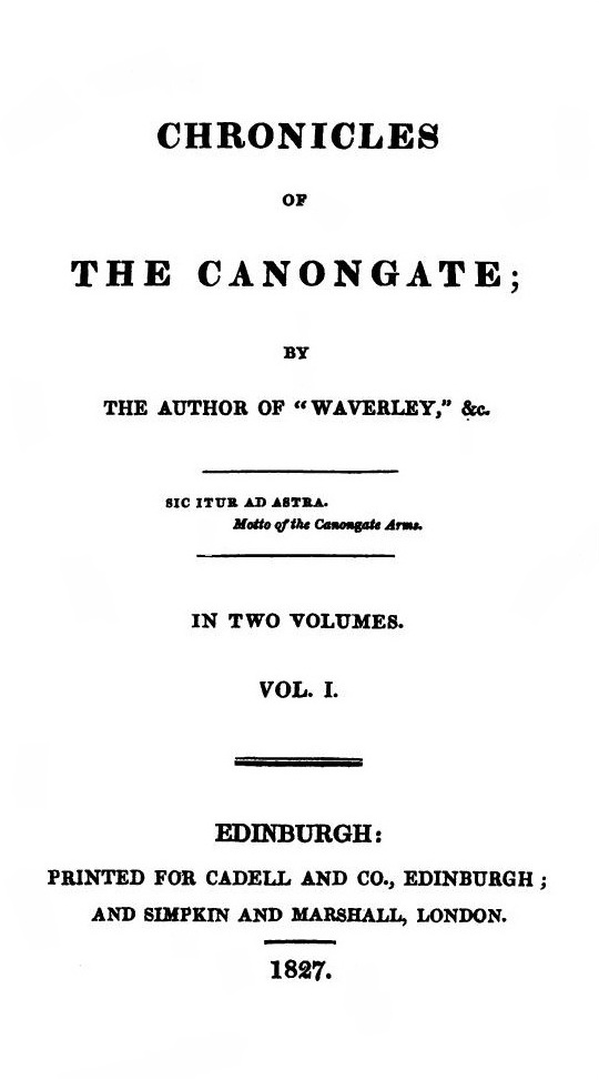 First ed title pg